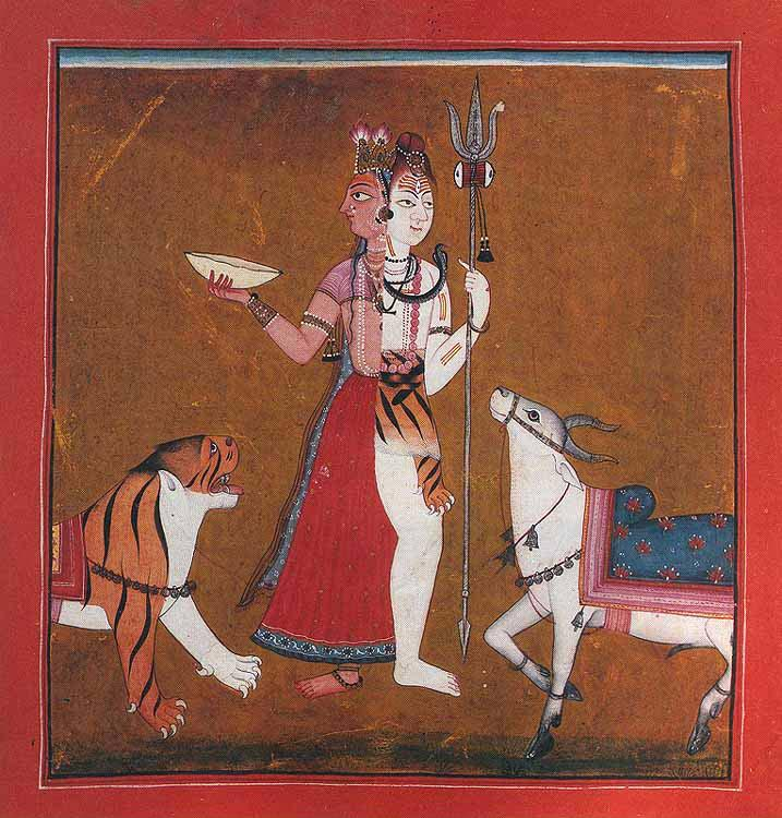 "Siva, the Lord Whose Half Is Woman (Ardhanarisvara) Mankot School, Western Punjab Hills, c.1710-20 Opaque watercolor on paper, 21.3 X 20.5 cm"